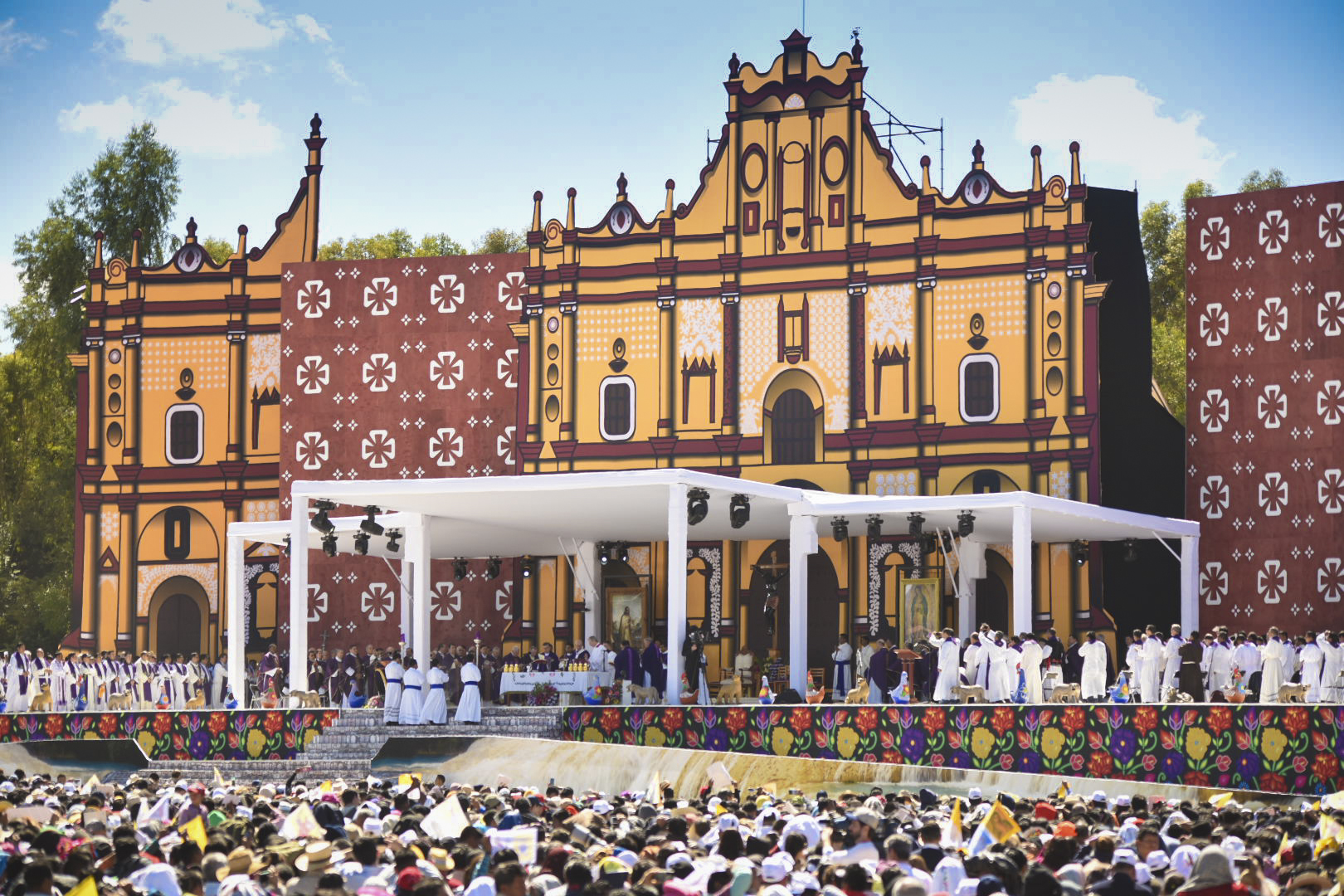 SAN CRISTOBAL, MEXICO: Pope Francis arrives at San Cristobal de las Casas, Mexico, Monday, Feb. 15, 2016. He will be joining Mexico's Indians in celebrating Mass in three languages native to them, Chol, Tzotzil and Tzeltal. The Vatican recently approved the use of these languages use in the liturgy. Photos by Marko Vombergar/ALETEIA